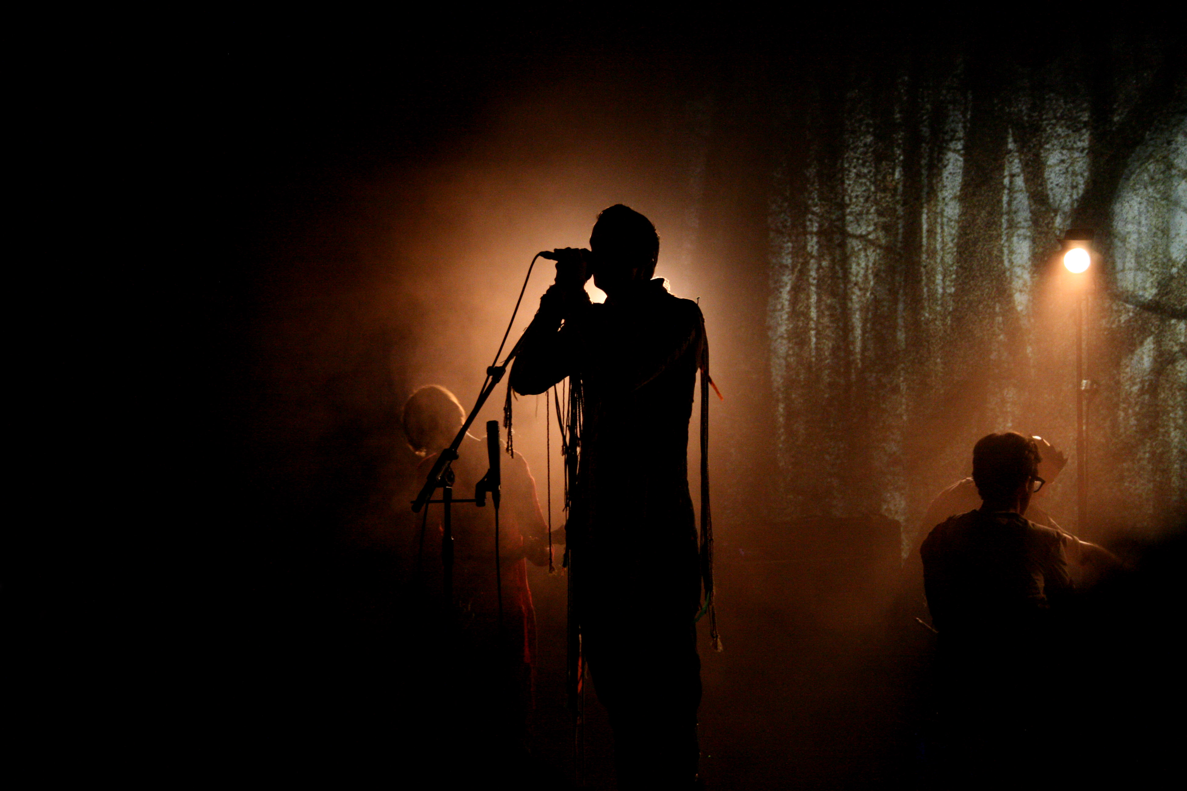 Jónsi in Ferrara. Taken by me